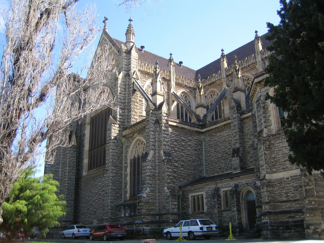 St Mary's Cathedral in Perth, Western Australia, in 2005 prior to recent extensive restorations and expansion.